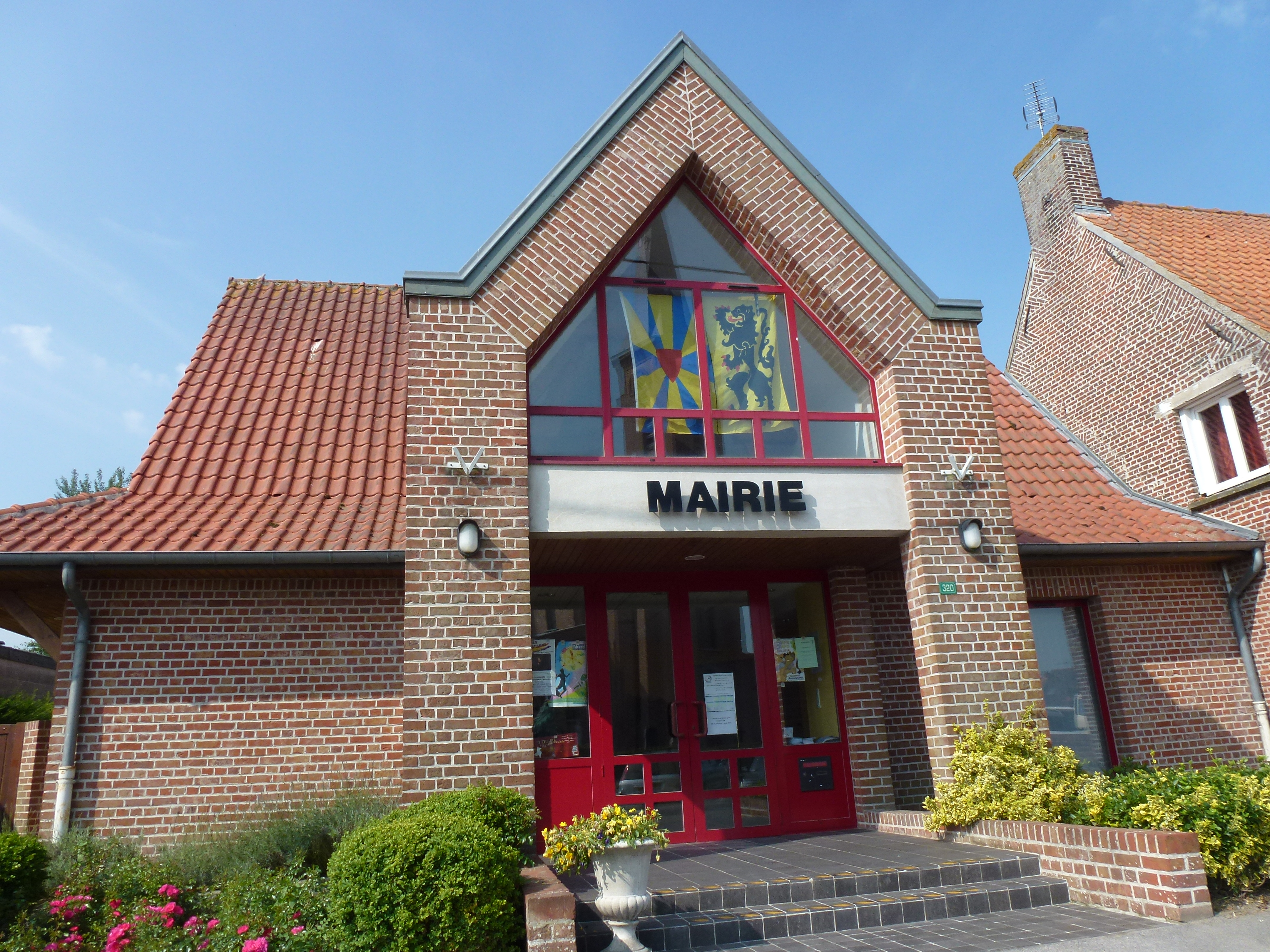 Zuytpeene (Nord, Fr) mairie